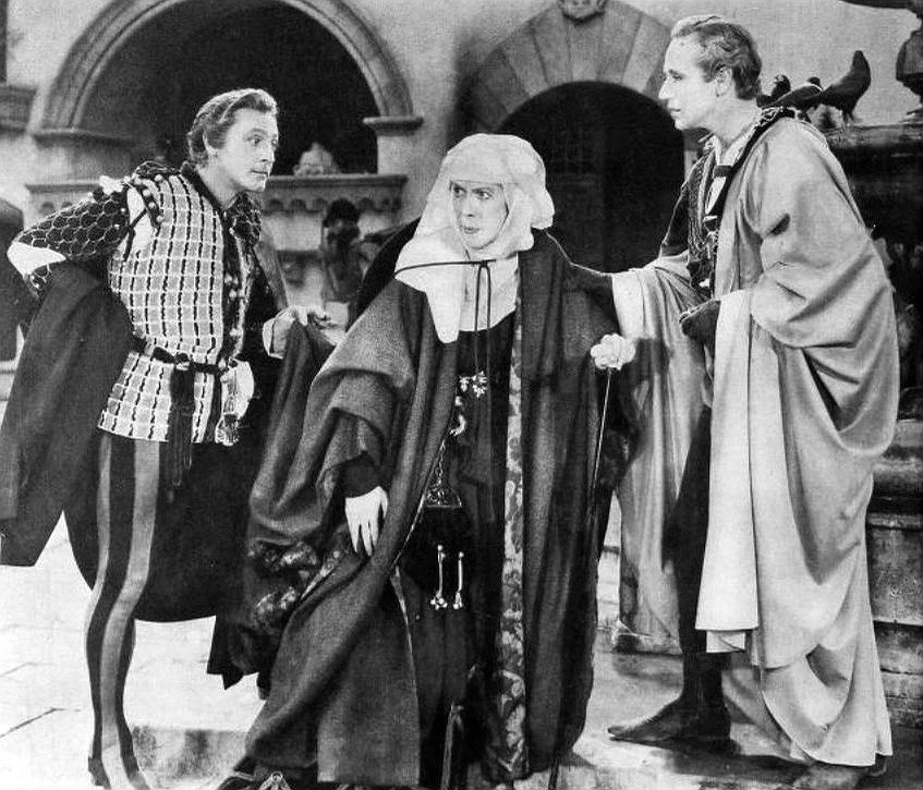 Scene from the 1936 film Romeo and Juliet Pictured from left to right are John Barrymore, Edna May Oliver and Leslie Howard.